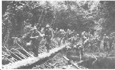 CMH Pub 100-1: On the Way to Buna: The Inland Route. Men of M Company, 128th Infantry, on the trail between Dobodura and Buna.